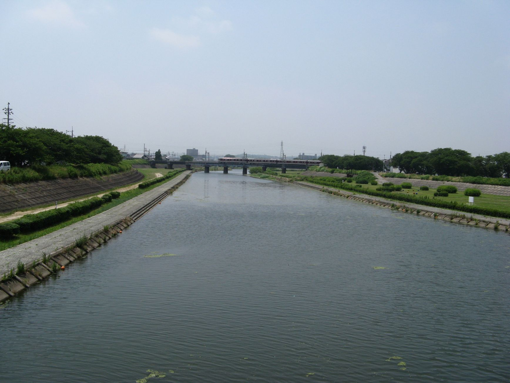 Kaizō river seen from Kaizō Bridge of Route 1 in Yokkaichi, Mie prefecture, Japan.